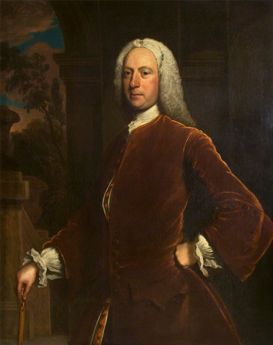 A portrait of James Wigley (1700 - 1765), painted by Joseph Highmore in 1741, and in the collection of the Leicester Museum & Art Gallery.